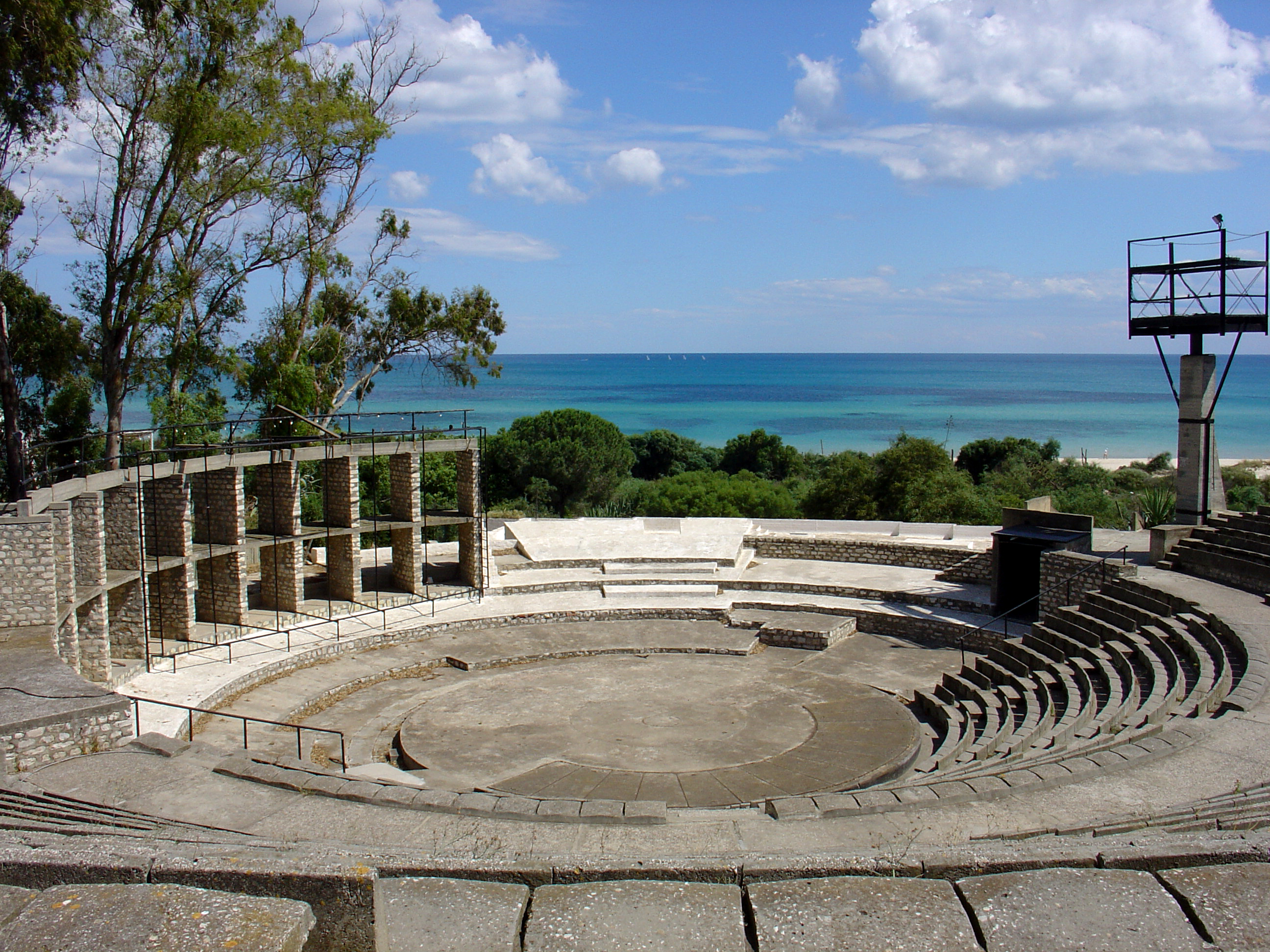 Open-air theatre of Hammamet (Tunisia)